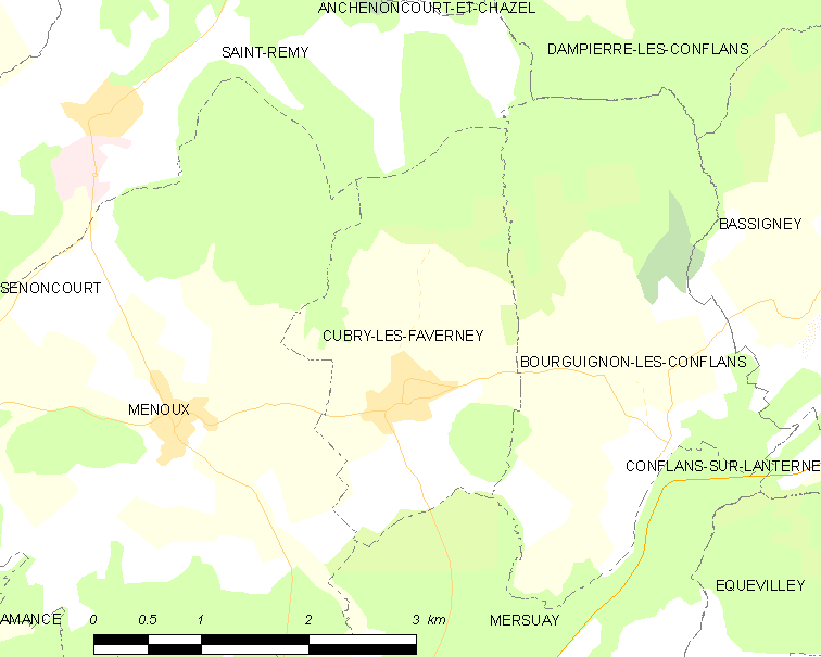 Map of French municipality